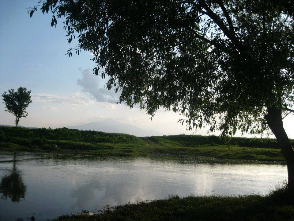 Anamorava ne budrig te gjilanit